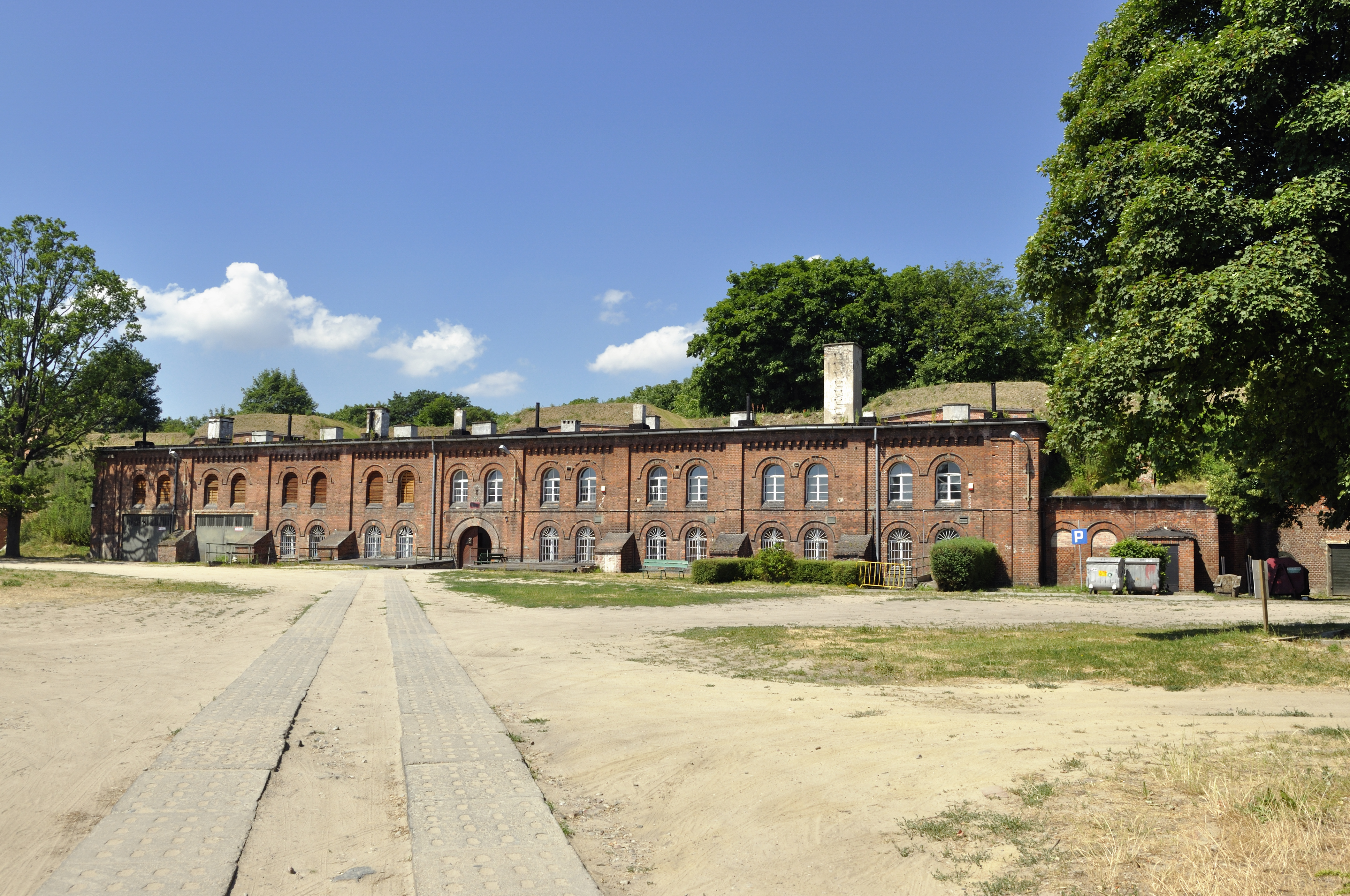 Picture taken in Gdańsk after Wikimania 2010 conference. Barracks shelters on Grodzisko.